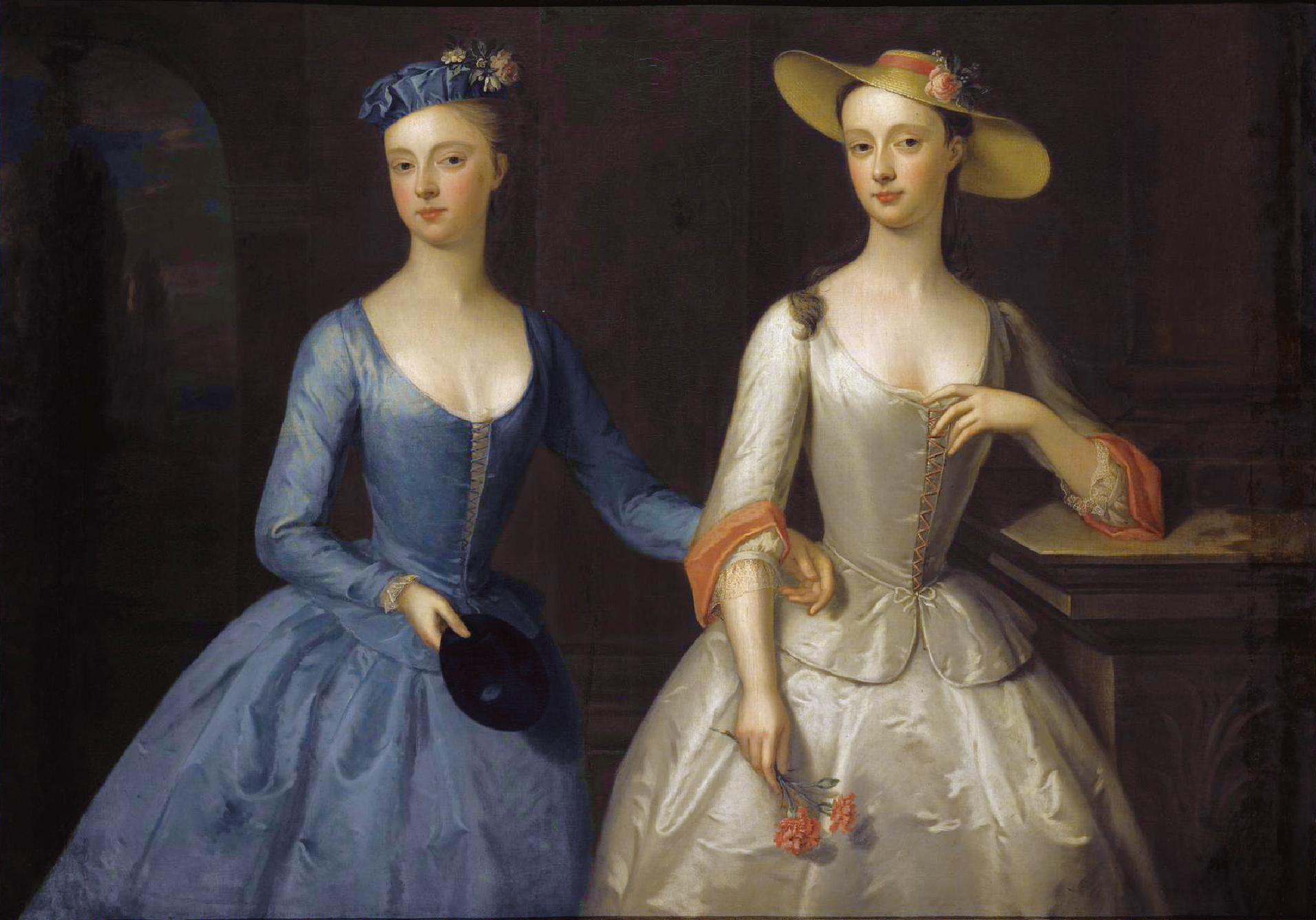 Lady Sophia (1721-1745) and Lady Charlotte Fermor (1725-1813) probably 1741 at a masquerade of the Duchess of Norfolk